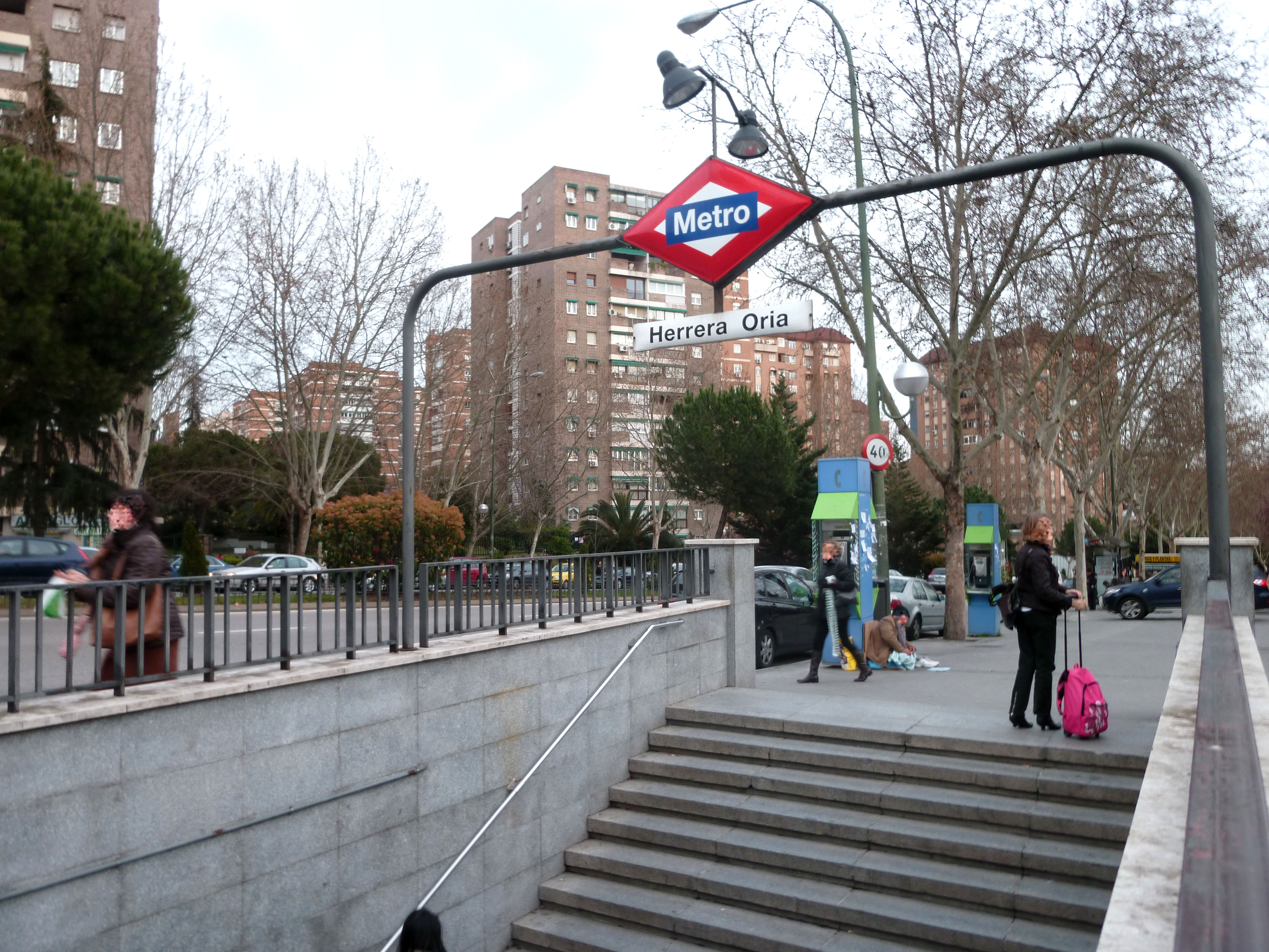 Entrance of Herrera Oria metro station in Madrid (Spain), at 49 Calle de Ginzo de Limia (street) in Fuencarral-El Pardo district.